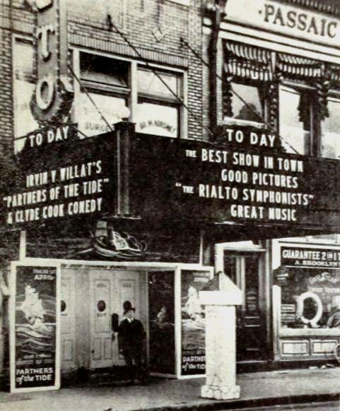 The Rialto Theater in Passaic, New Jersey, showing the American film Partners of the Tide (1921), on page 47 of the May 21, 1921 Exhibitors Herald.